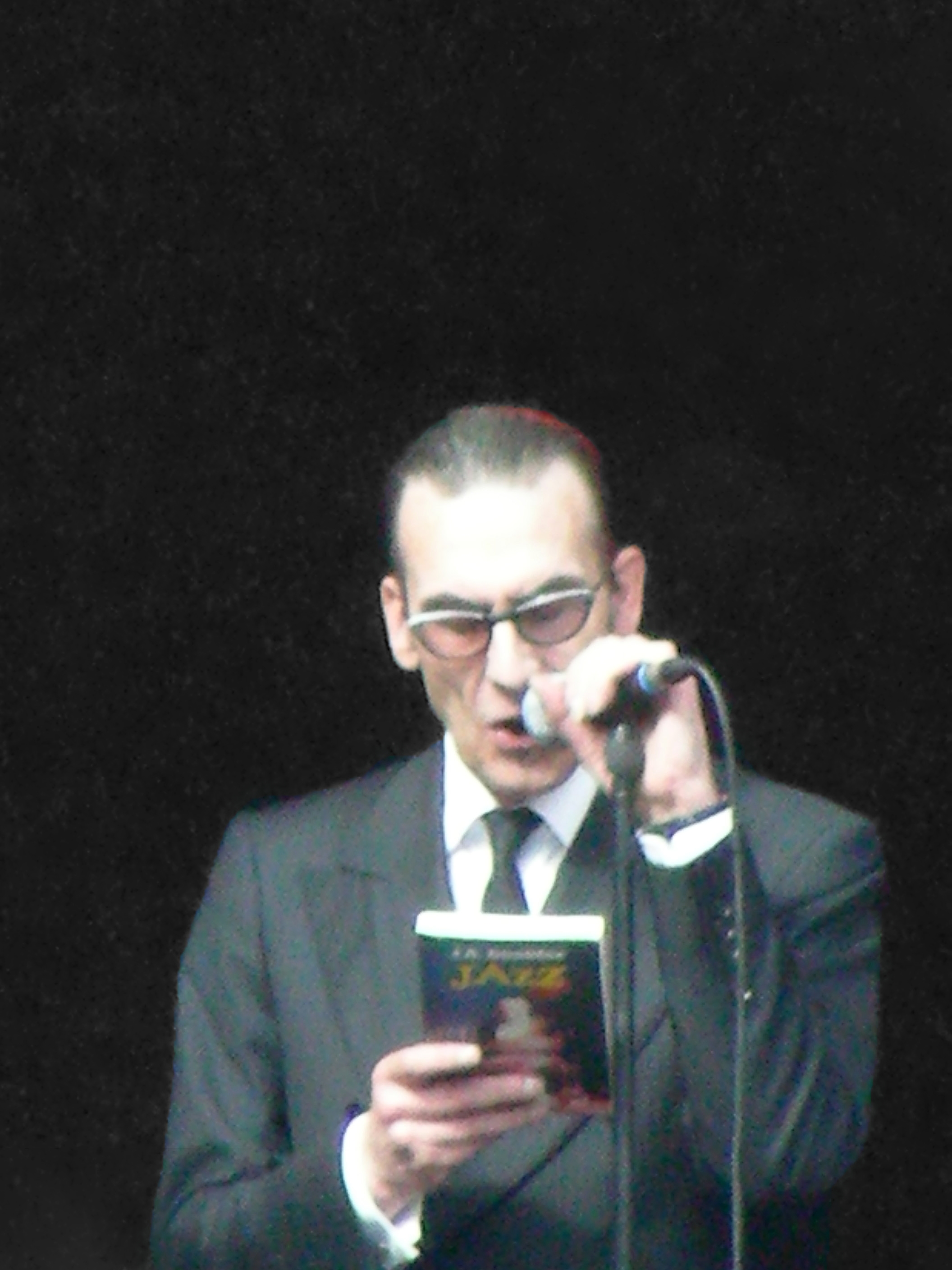 Jules Deelder reading from his book Jazz